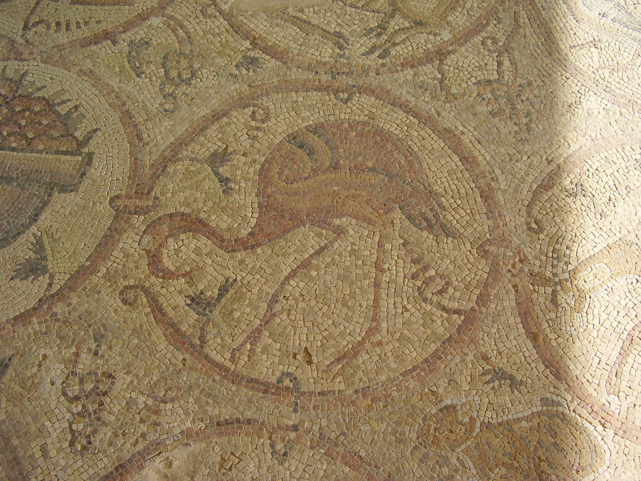 flamingo in maon old synagogue mosaic